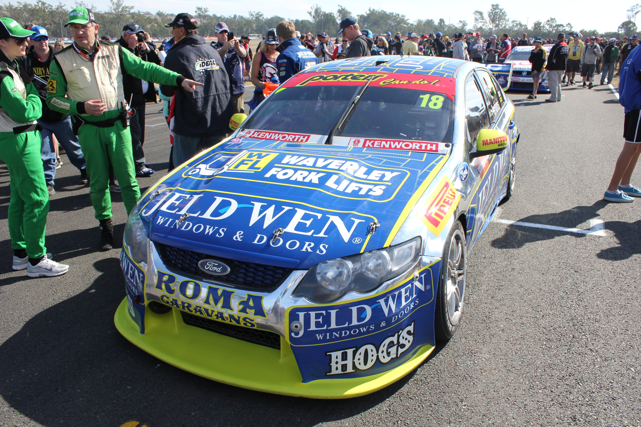 Car #18 of Jack Perkins at the 2014 Coates Hire Ipswich 400.